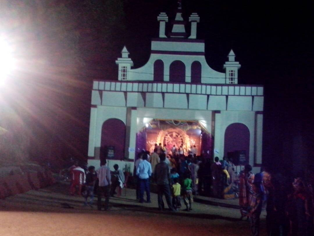 Durga pooja